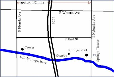 Drawn by BRoys explicitly for Wikipedia "Sulpher Springs Water Tower" page, on 17 Mar 2006. Used TurboCAD v9.2